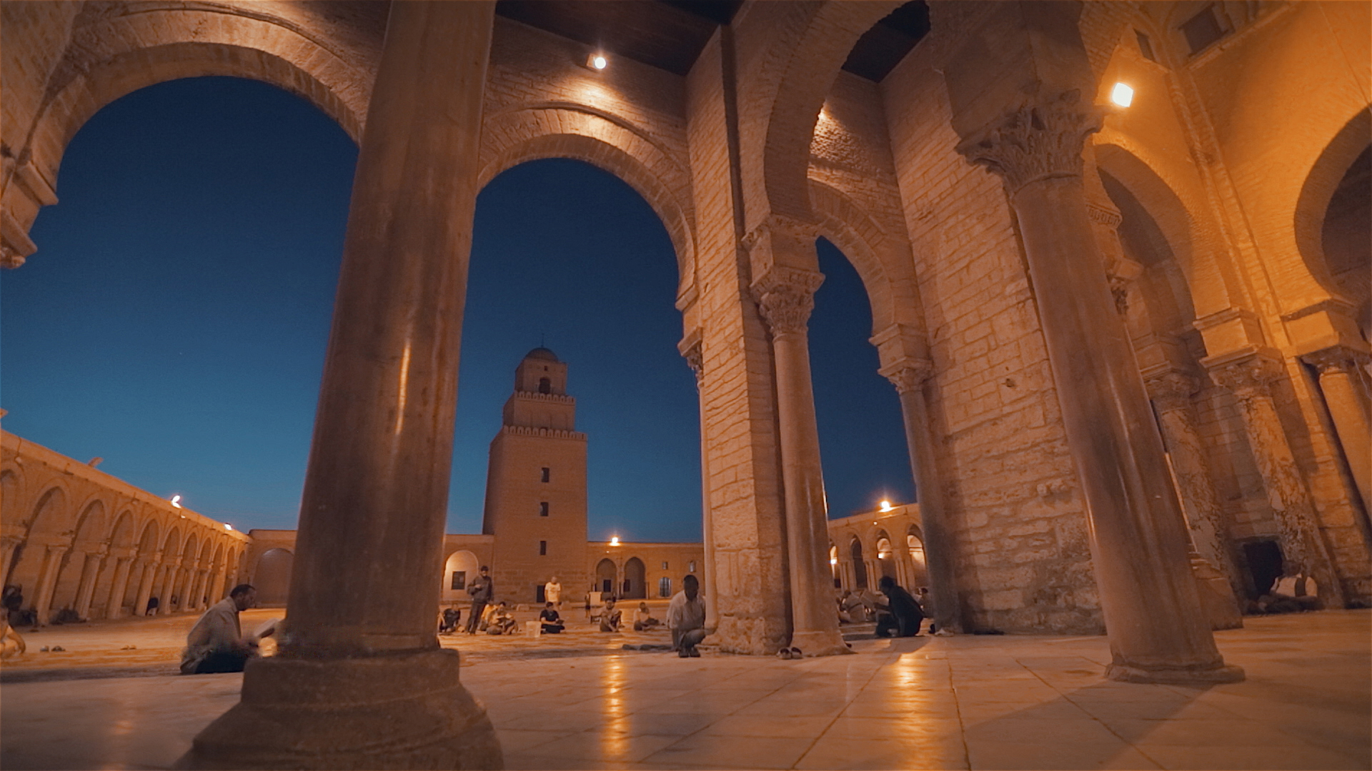 Rare arial view of Kairouan Great Mosque or Mosque of Uqba in Tunisia.